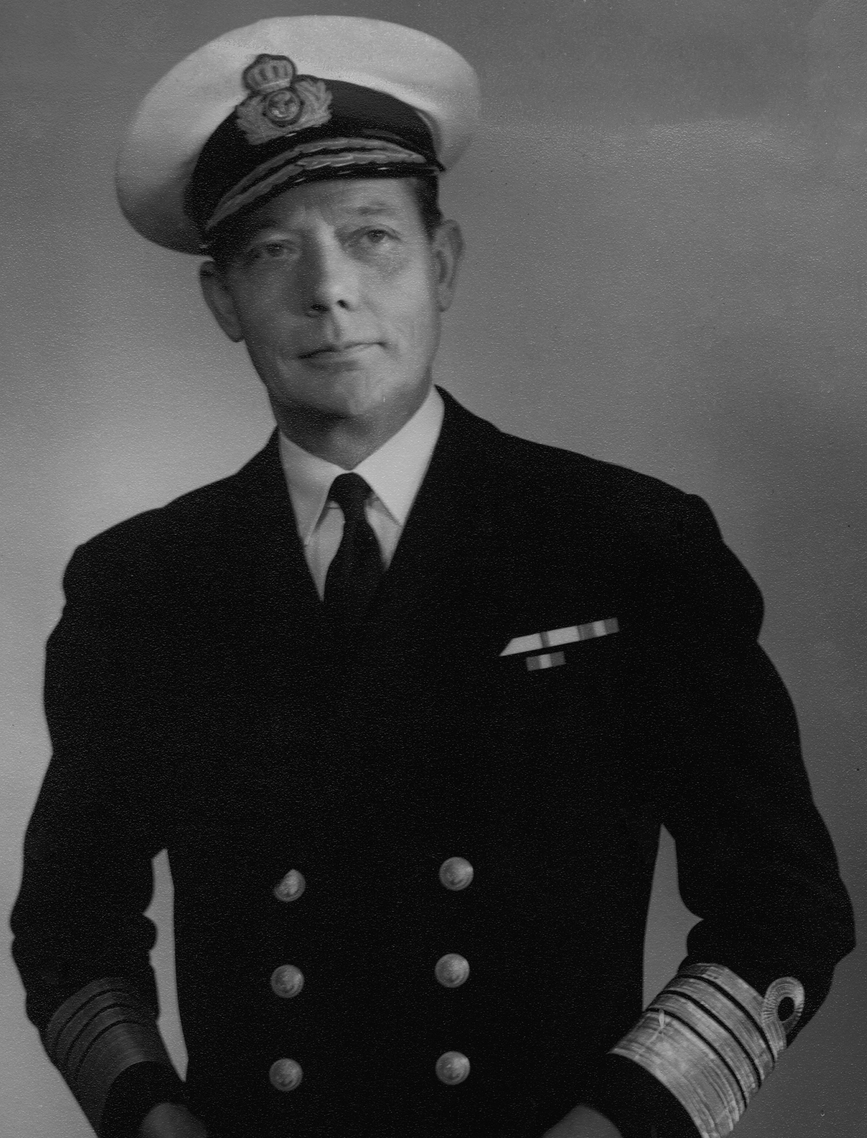 Denmark's first-ever Chief of Defence, Admiral E.J.C. Qvistgaard (1898-1980).